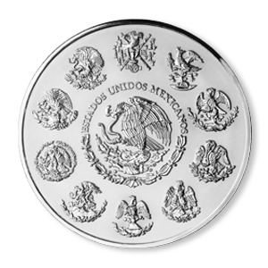 Front of most beautifull coin, 2007